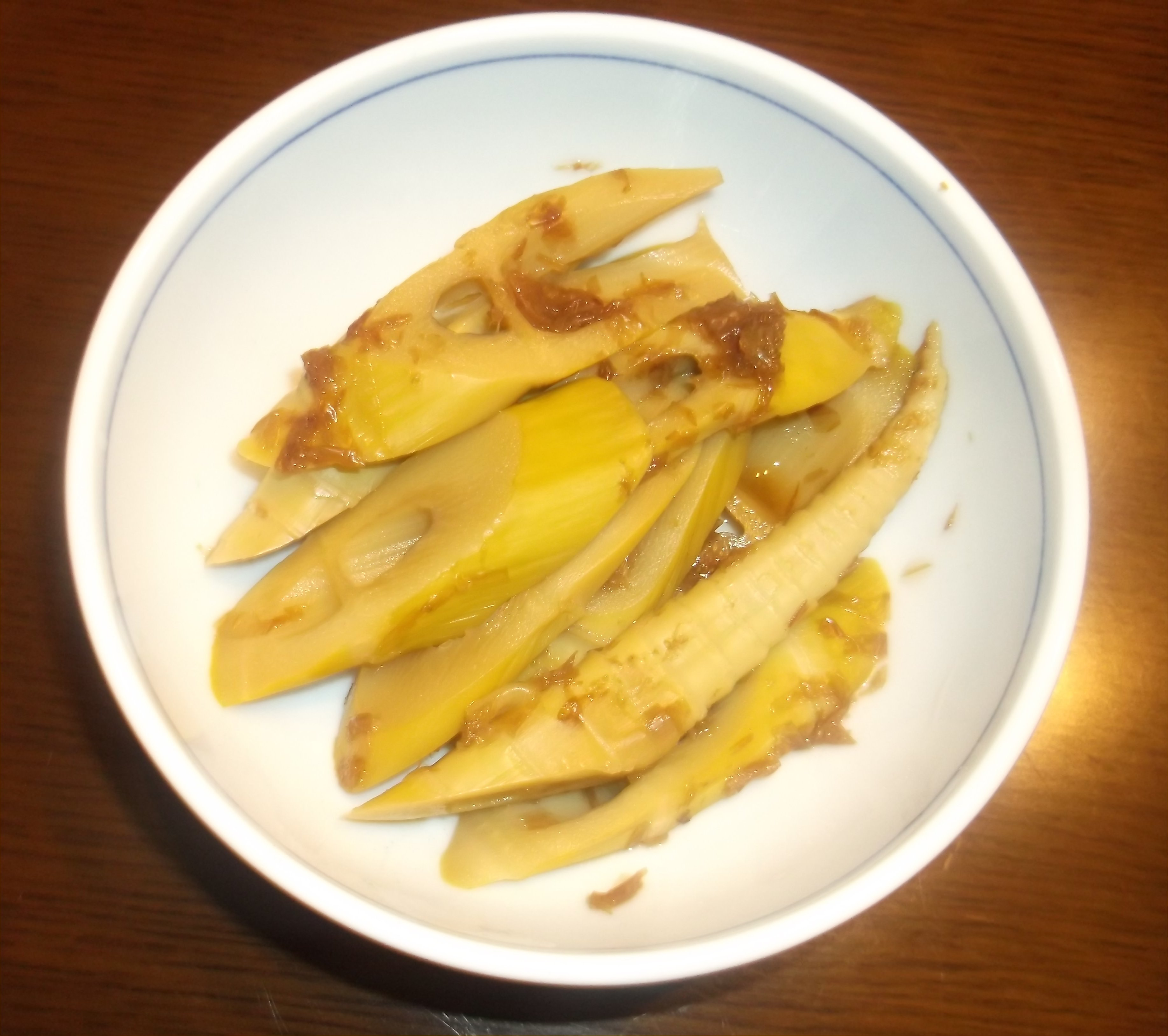 A photo of nimono of square bamboo(Japanese cuisine)